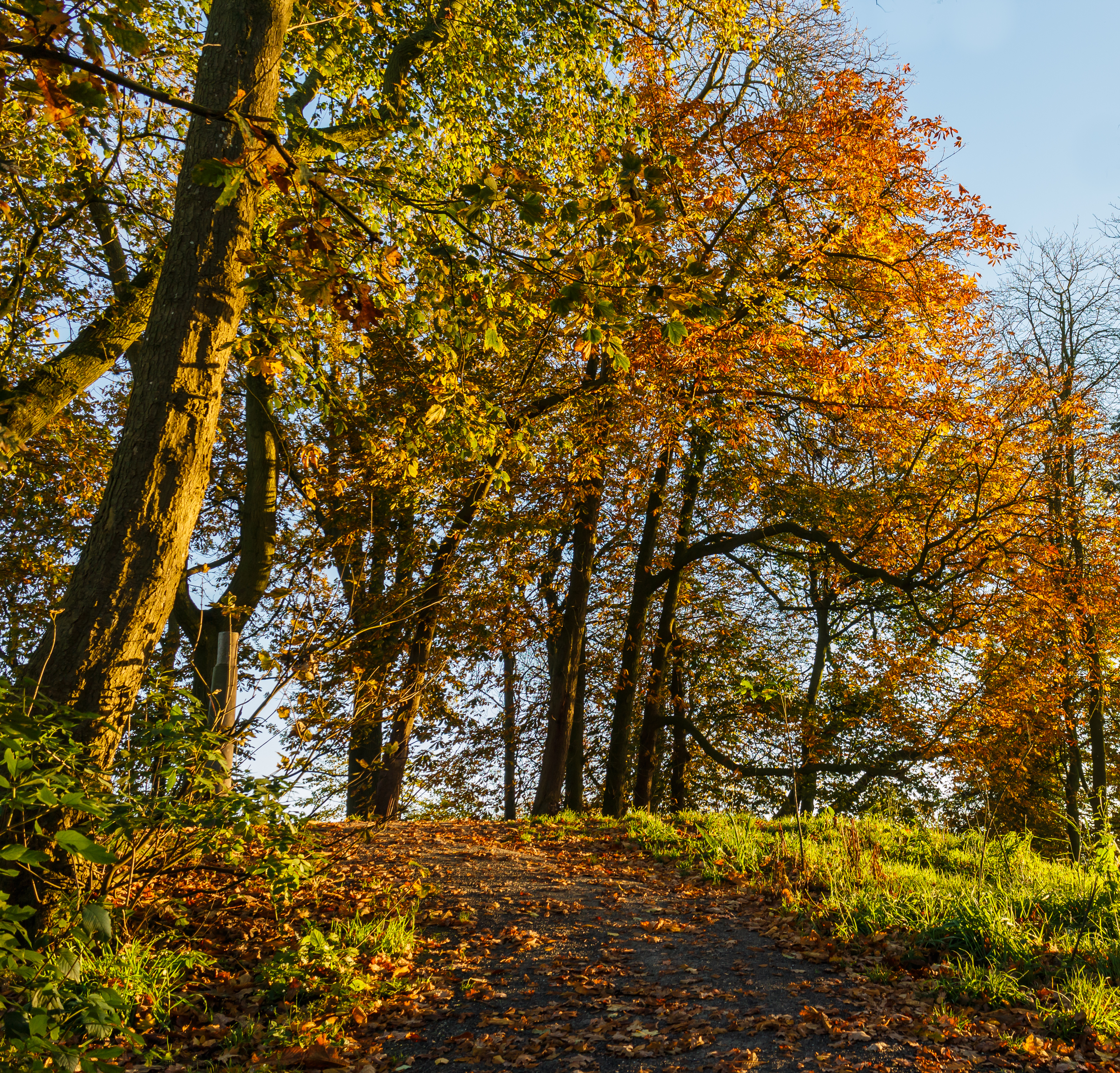 Autumn in Historical park Heremastate (Netherlands).